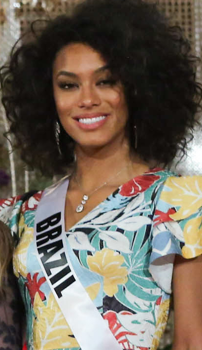 President Rodrigo Roa Duterte and Tourism Secretary Wanda Teo are flanked by candidates of the 65th Miss Universe during a photo session at the Rizal Hall in Malacañan Palace on January 23, 2017. ALBERT ALCAIN/Presidential Photo